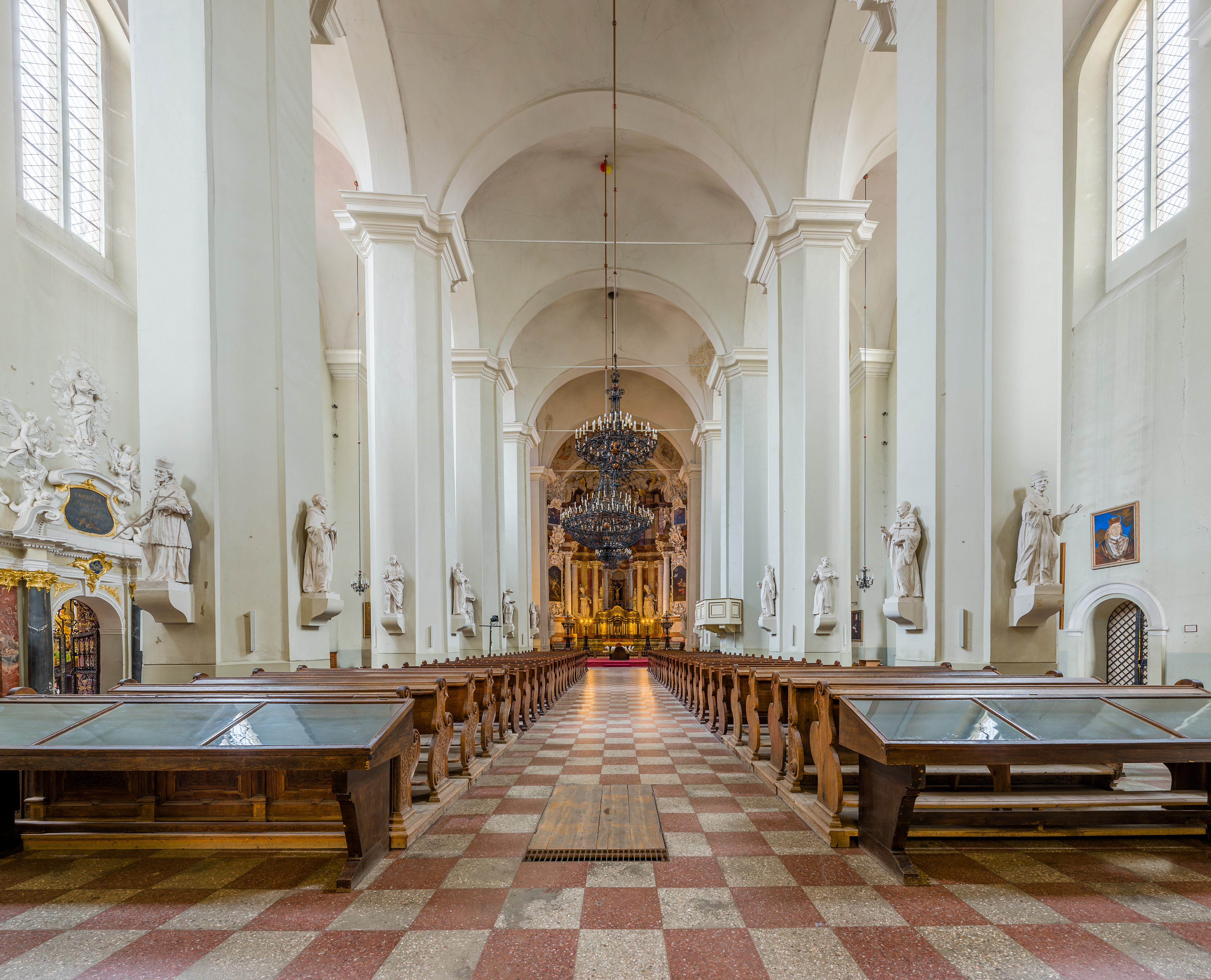 The Church of St. Johns in Vilnius University, Vilnius, Lithuania.